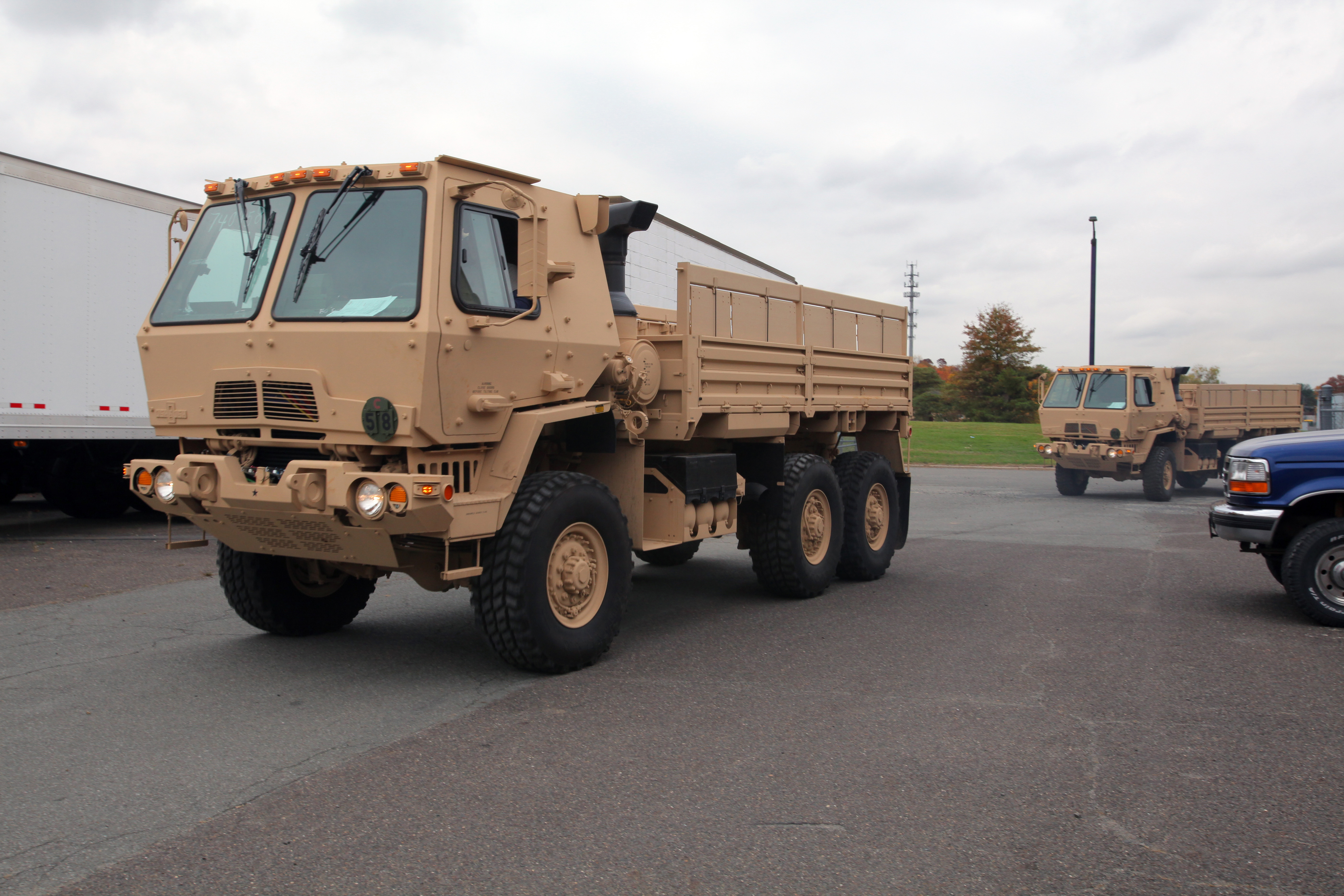 Medium tactical vehicles with the New Jersey Army National Guard are brought in to Lawrenceville, N.J., as the New Jersey National Guard prepares for Hurricane Sandy Oct. 26, 2012.